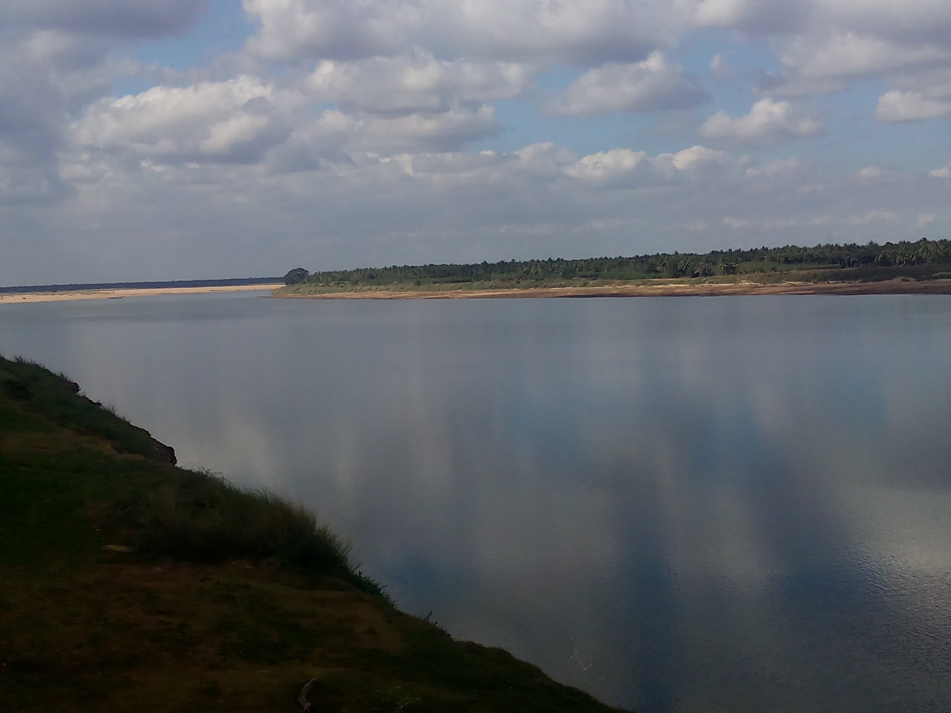 rever bank of godavari-1